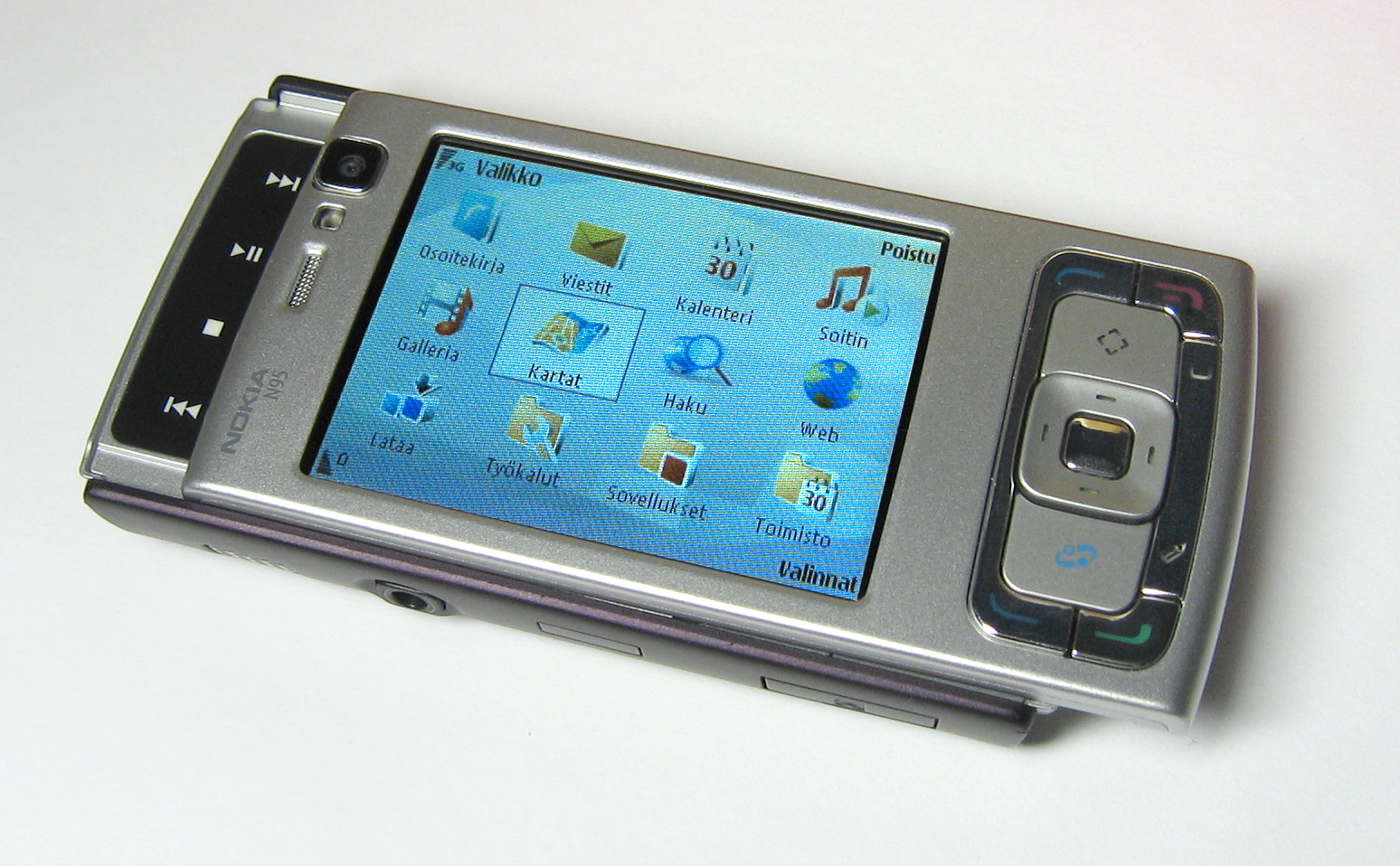 Nokia N95 smartphone in landscape orientation. Photo by me.